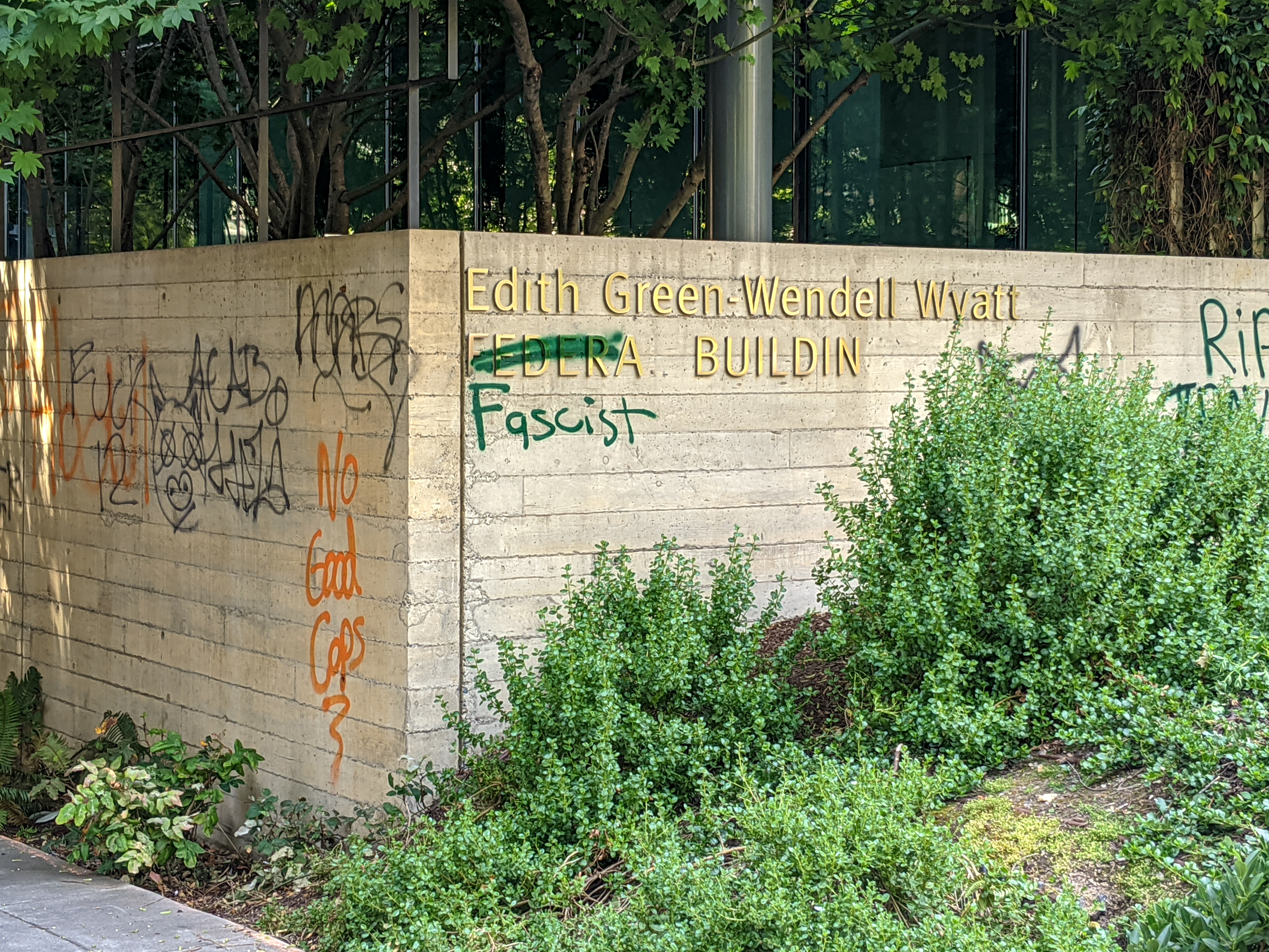 Anti-fascist messaging on the Edith Green – Wendell Wyatt Federal Building during the 2020 George Floyd protests.